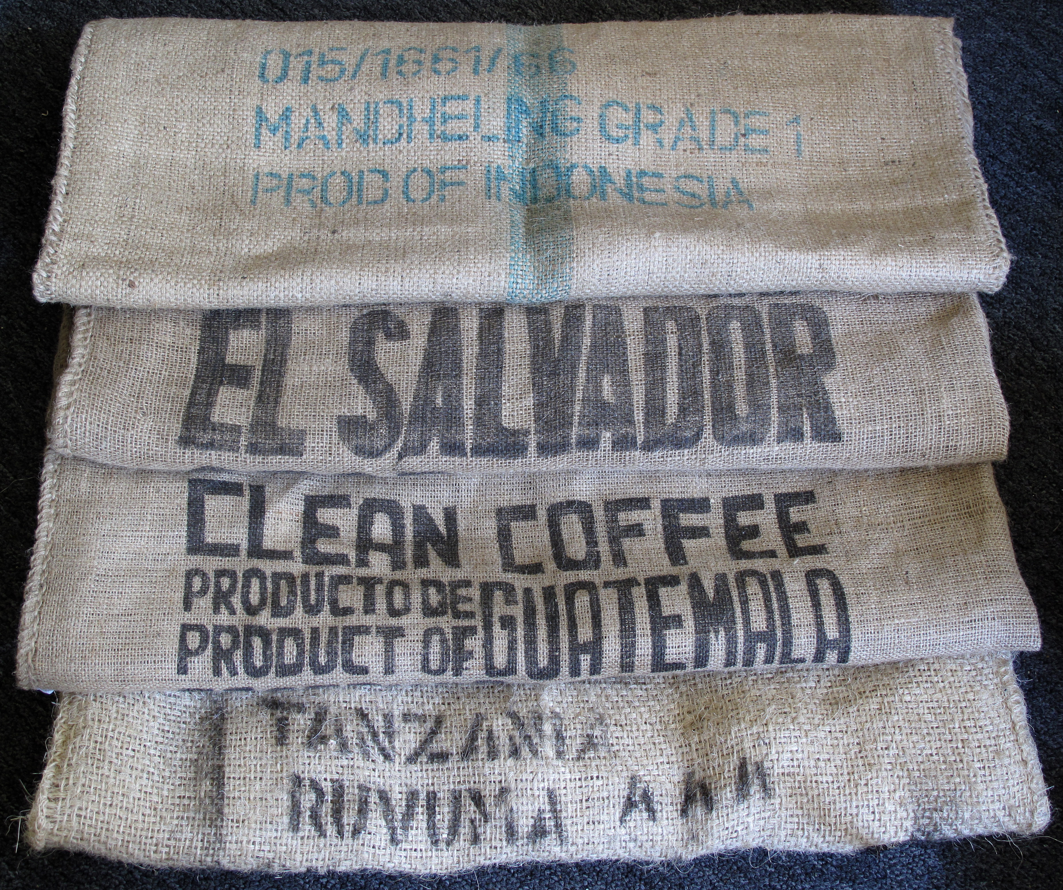 Three empty coffee sacks made of jute (burlap). The sack from Tanzania appears to be made of sisal.